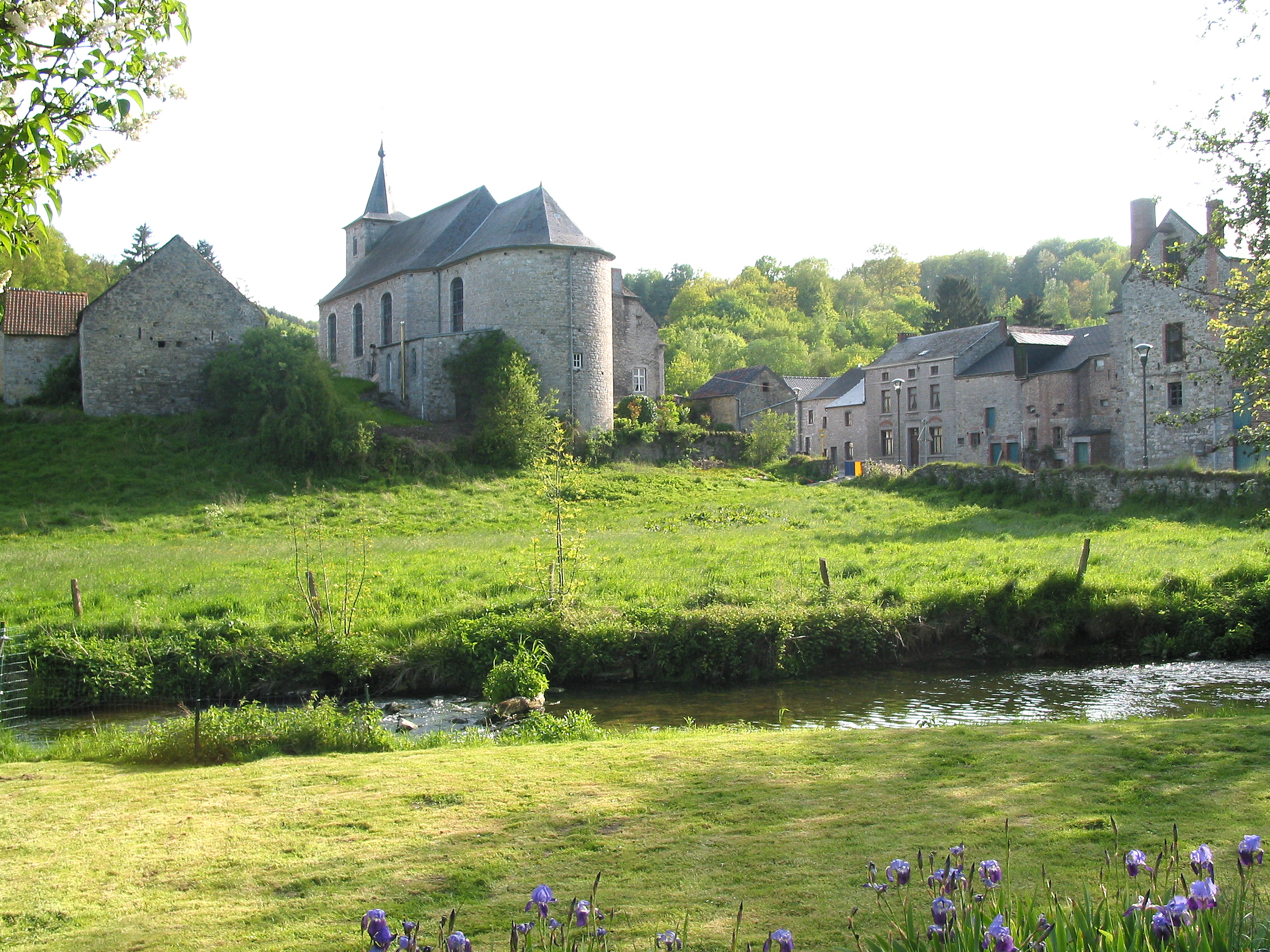 Sosoye (Belgium), the church neighbourghood and the Molignée river.